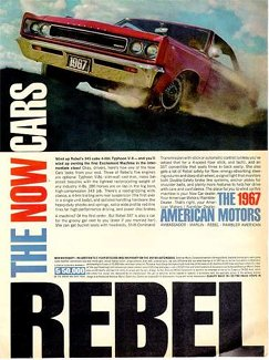 1967 magazine advertisement for the Rambler Rebel SST. The ad was placed as a means of promoting the vehicle. This serves as an example of how AMC promoted the car in an attempt to change it reputation as a stodgy producer of economy cars. The image was freely provided to promote this item with the intention that it be distributed by the media to the public.